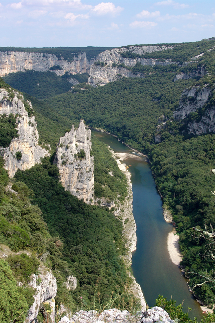 Belvédère de la Madeleine, Gorges de l'Ardèche